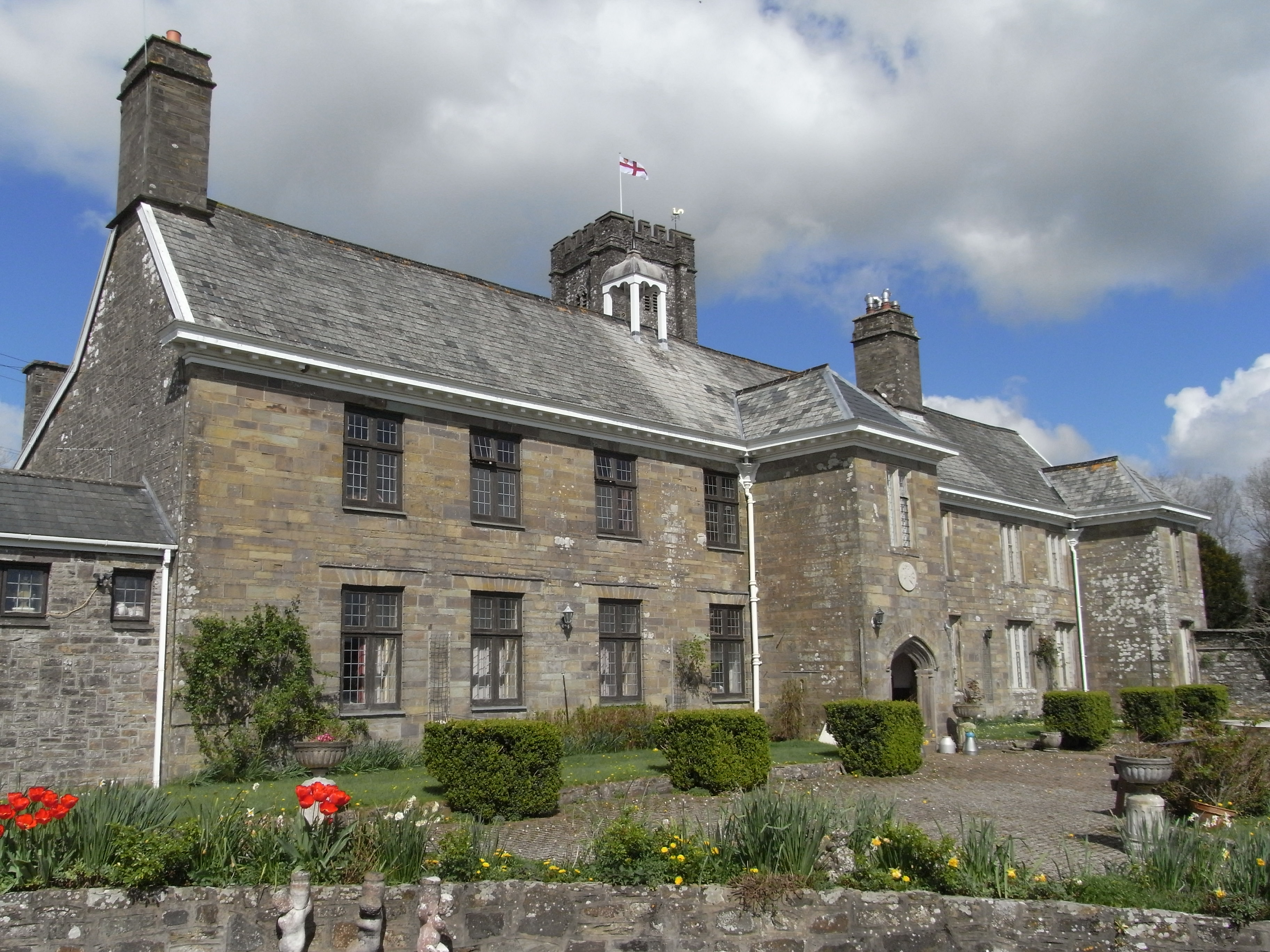 Court House, North Molton, Devon. Built by Parker family in 1533